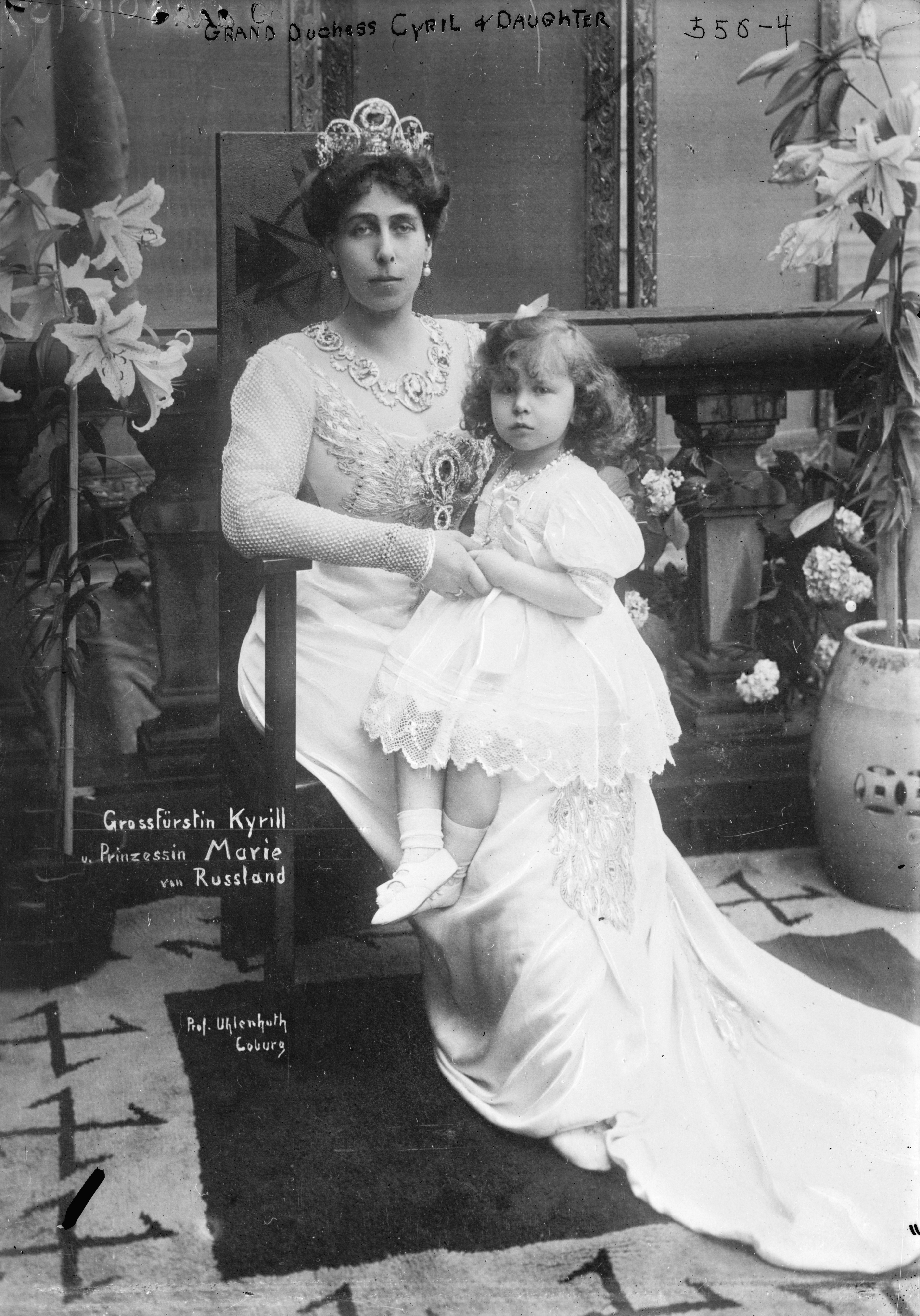 Grand Duchess Victoria Feodorovna of Russia with daughter Princess Marie of Russia on her lap, ca. 1909.